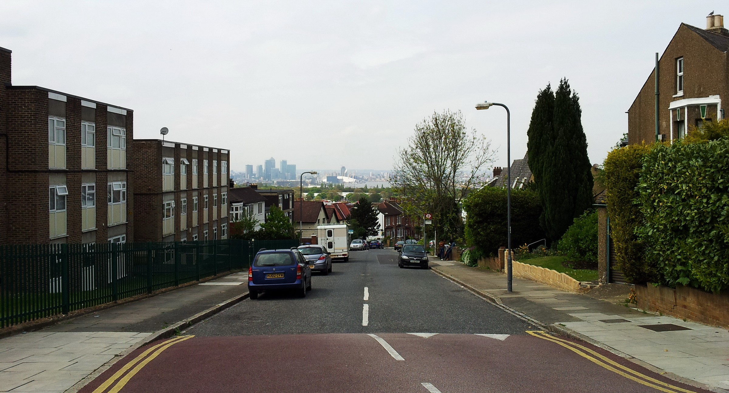 View of the Thames and Canary Wharf from Brent Road, Woolwich-Shooter's Hill.